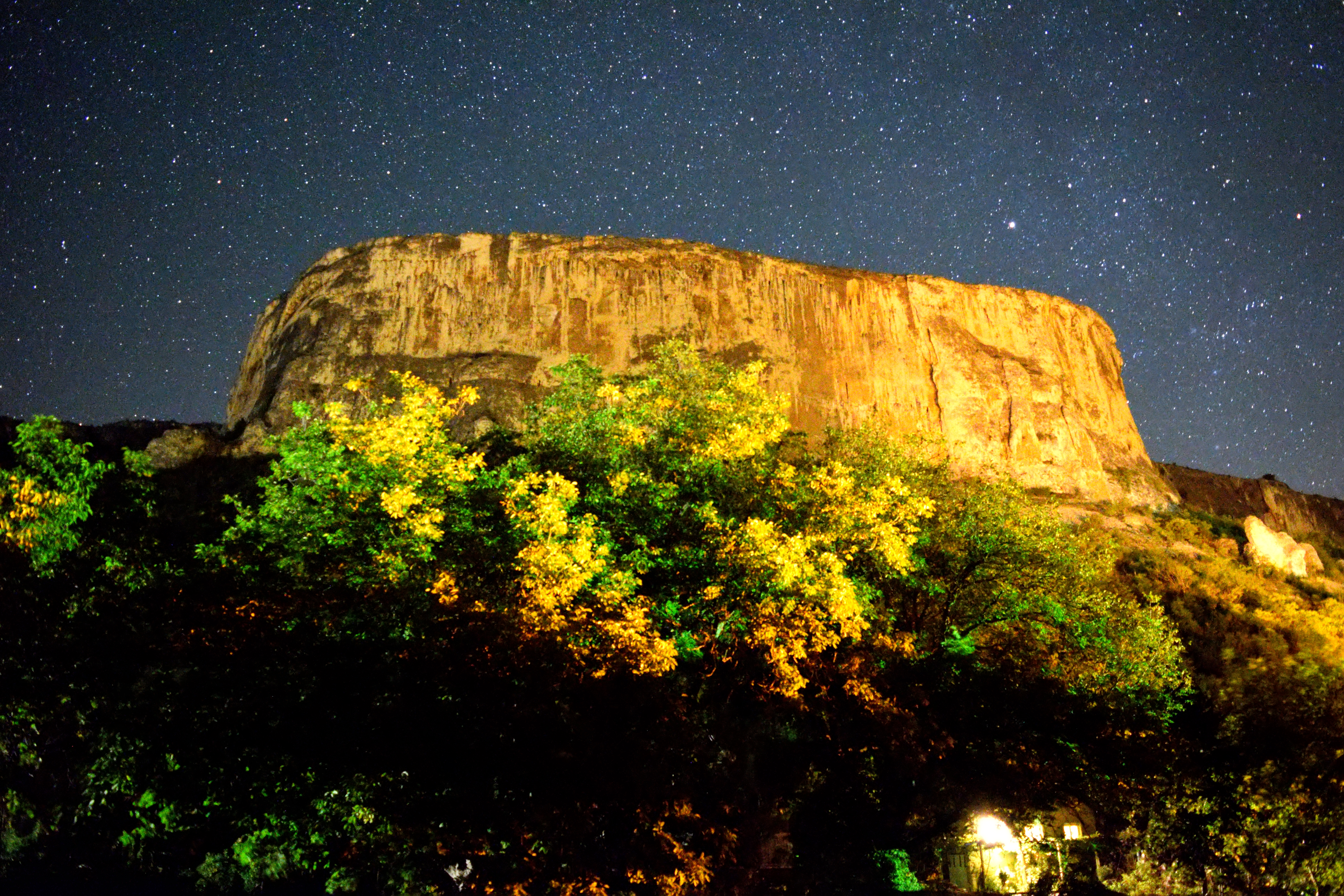 Chervenitsa Rock above Kunino village, Bulgaria